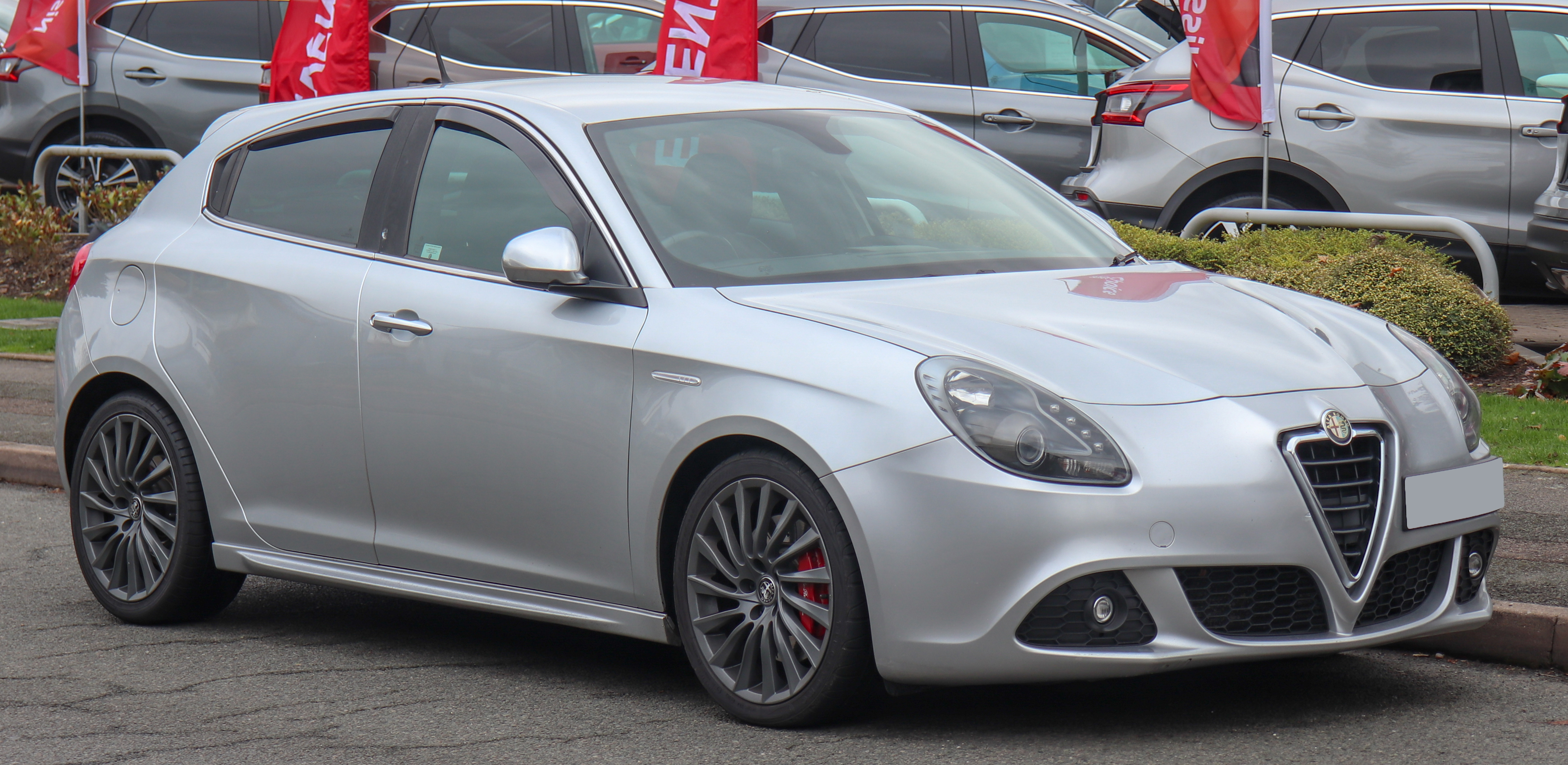 2011 Alfa Romeo Giulietta Veloce JTDm-2 2.0 Front Taken in Leamington Spa